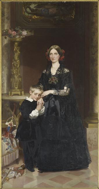 HRH The Princess Maria Carolina Augusta of the Two Sicilies (1822-1869) with her son Prince Louis Philippe of Orléans, Prince of Condé (1845-1866)